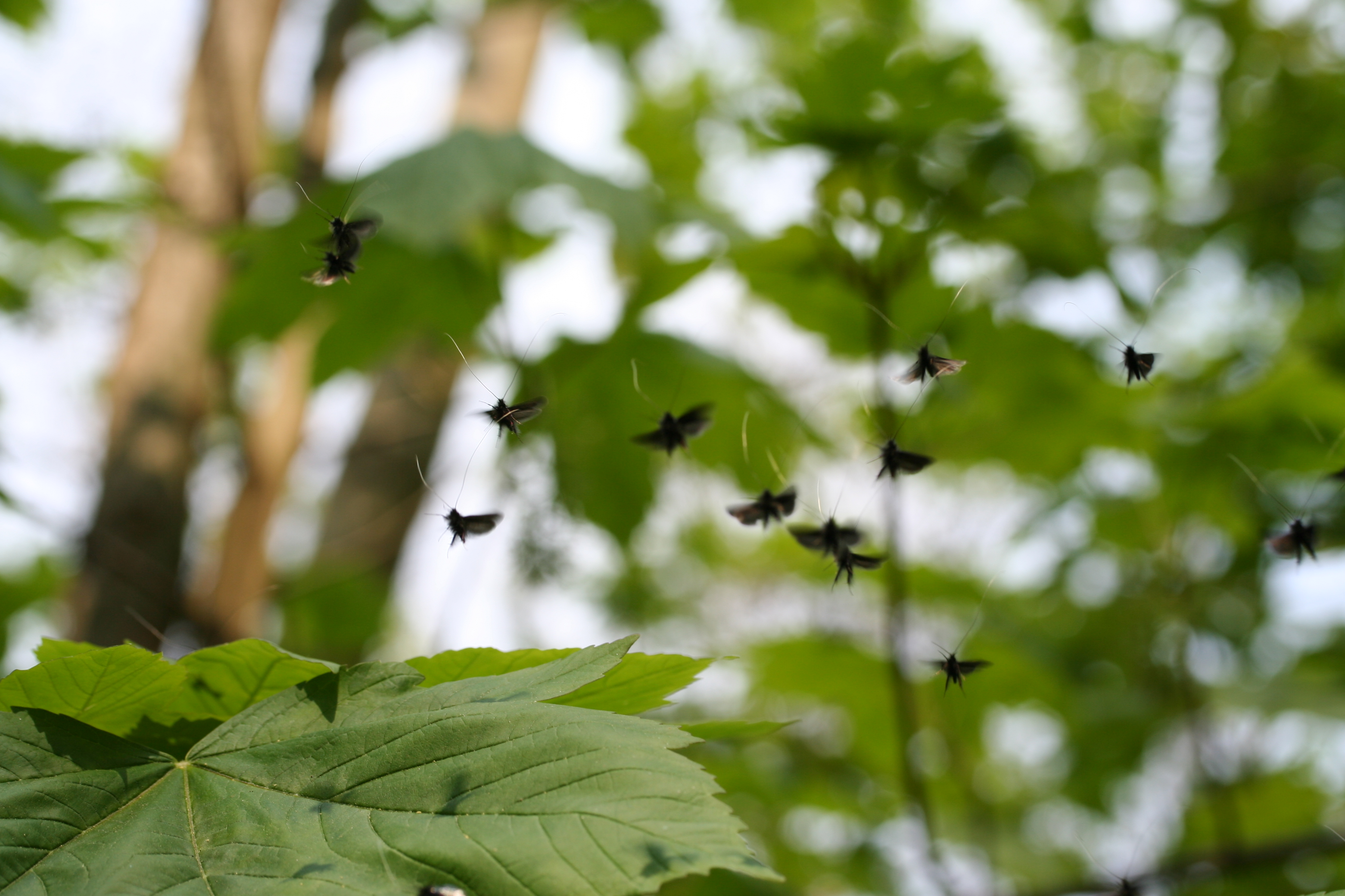 Adela reaumurella 7 may 2006 IJmuiden, the Netherlands